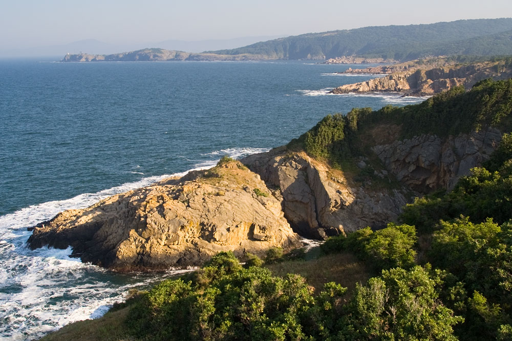 Oil cape, Bulgaria